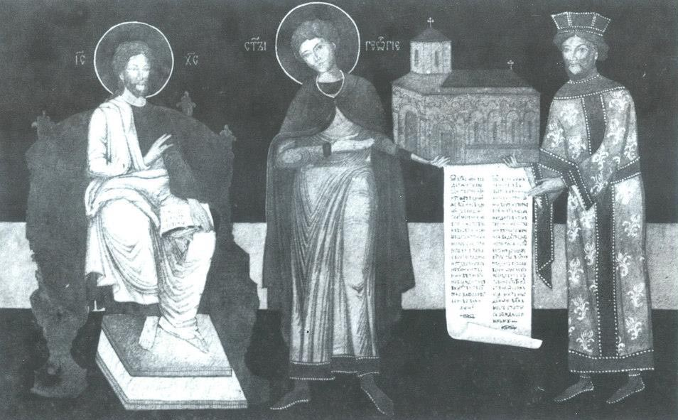 A reconstruction of the ktitor composition from the Vraćevšnica monastery, depicting Radič, Grand Čelnik granting his endowment through the intermediary, protector St. George, to Christ on the throne.